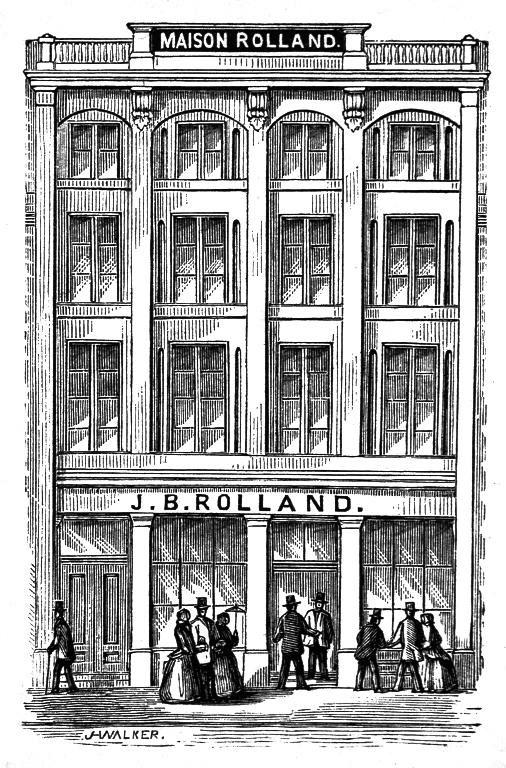 Engraving, J. B. Rolland, John Henry Walker (1831-1899), 1850-1885, Ink on paper on supporting paper - Wood engraving - 10.6 x 8 cm